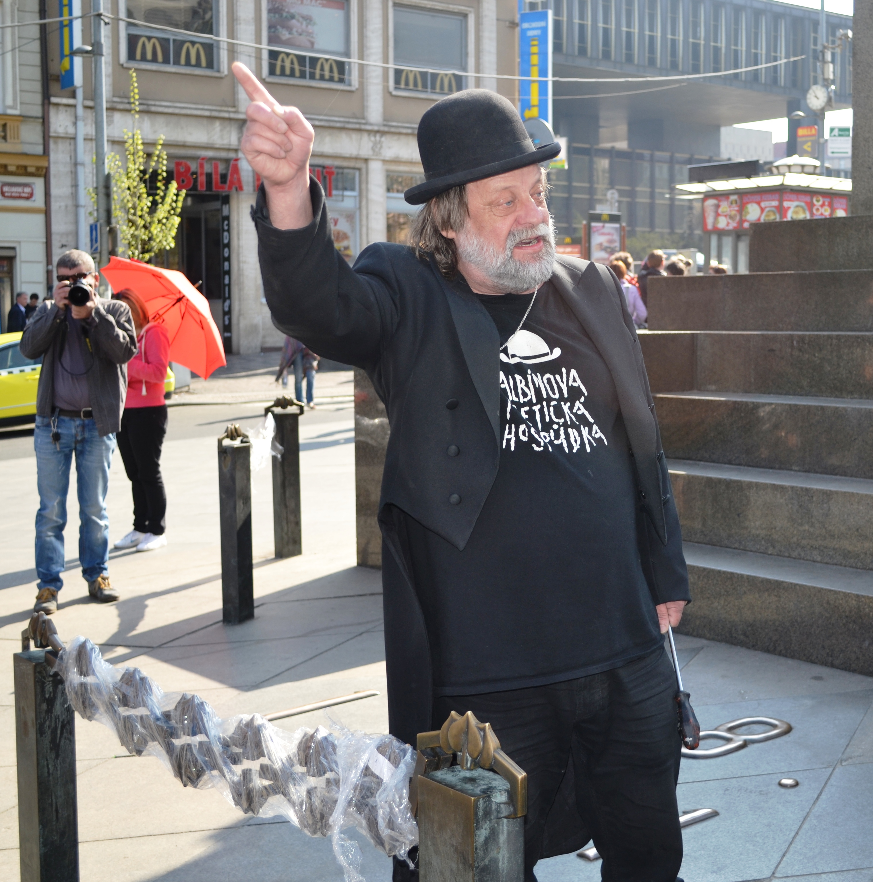 Jiří Hrdina, Great Governor of Balbín Poetic Party during a protest against the installation of the chain around the statue of St. Wenceslas on Wenceslas Square in Prague.